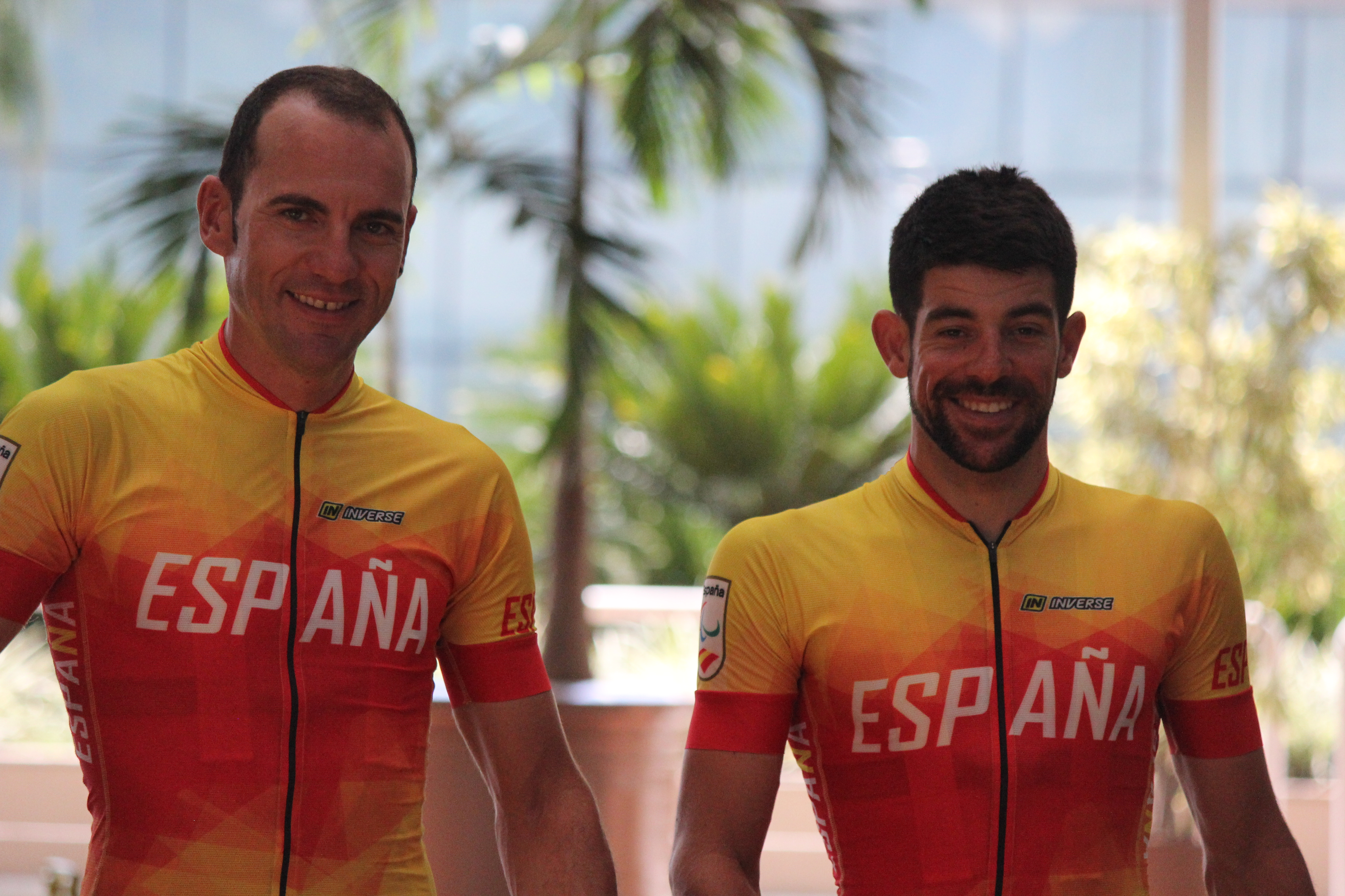 Ignacio Avila Rodriguez and his guide in Rio for the 2016 Summer Paralympics.